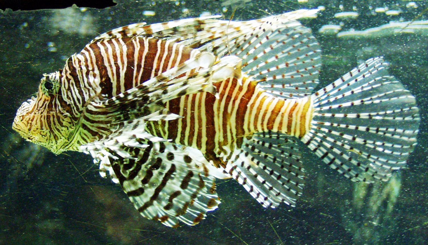 Red lionfish (Pterois volitans) at Zoo Duisburg, Germany